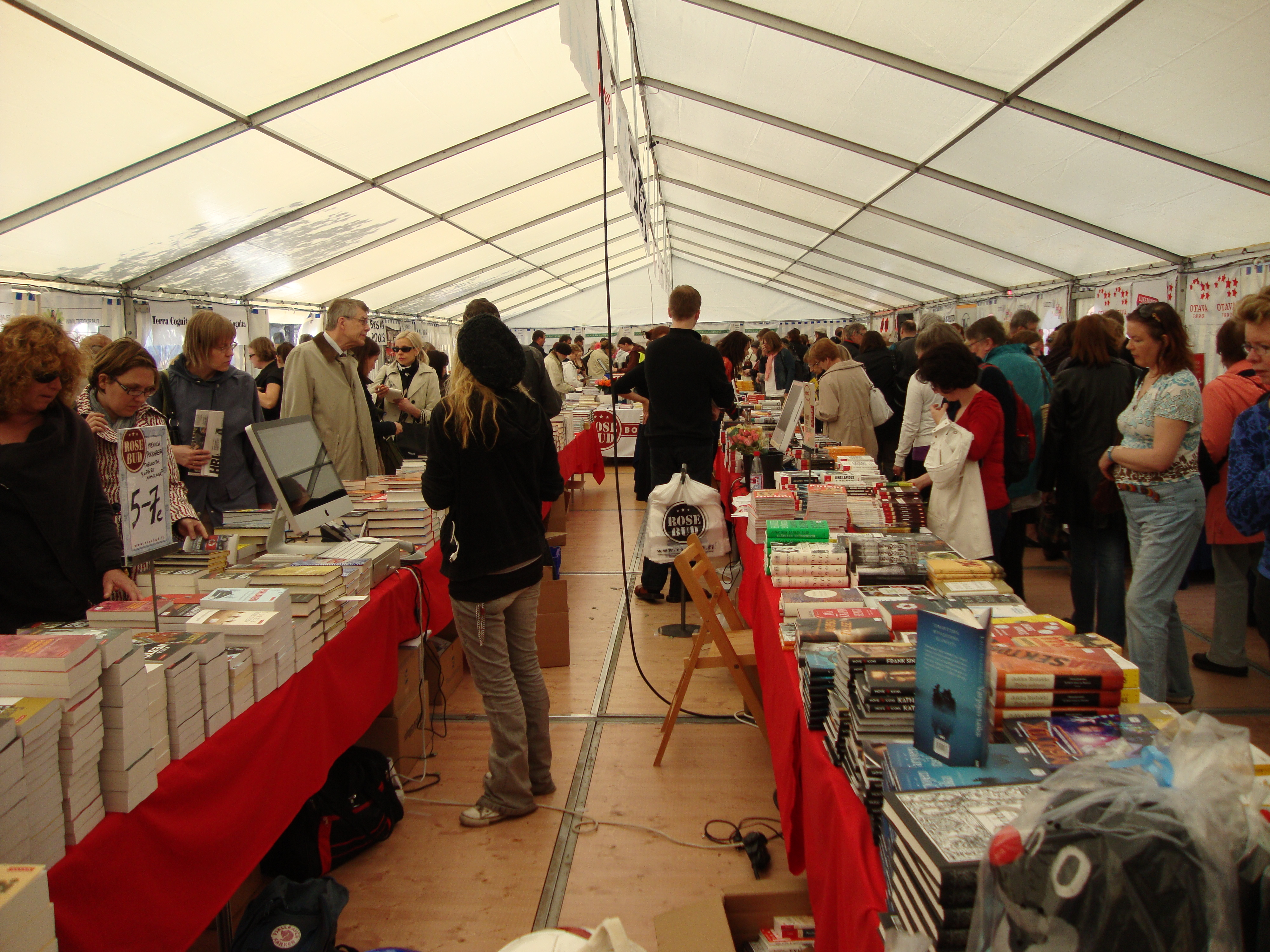 The book tent on Rautatientori Square on World Book Day in Helsinki in May 2011.